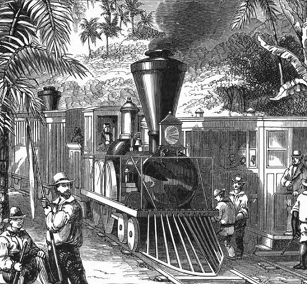 The name of the illustration is the same as the caption in this book about Panama and it's History (c) 1916.